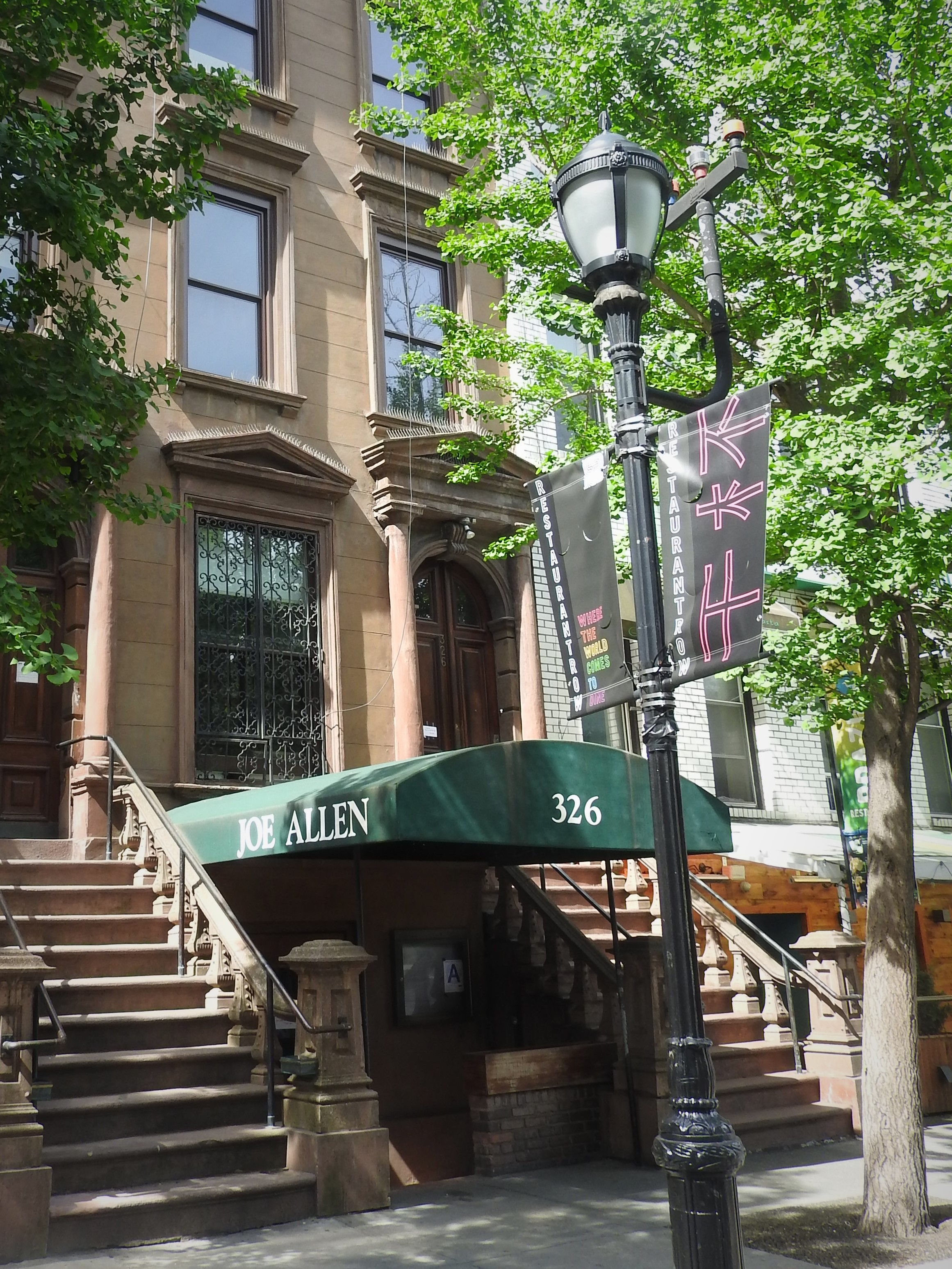 Looking west across 46th Street at awning of a restaurant